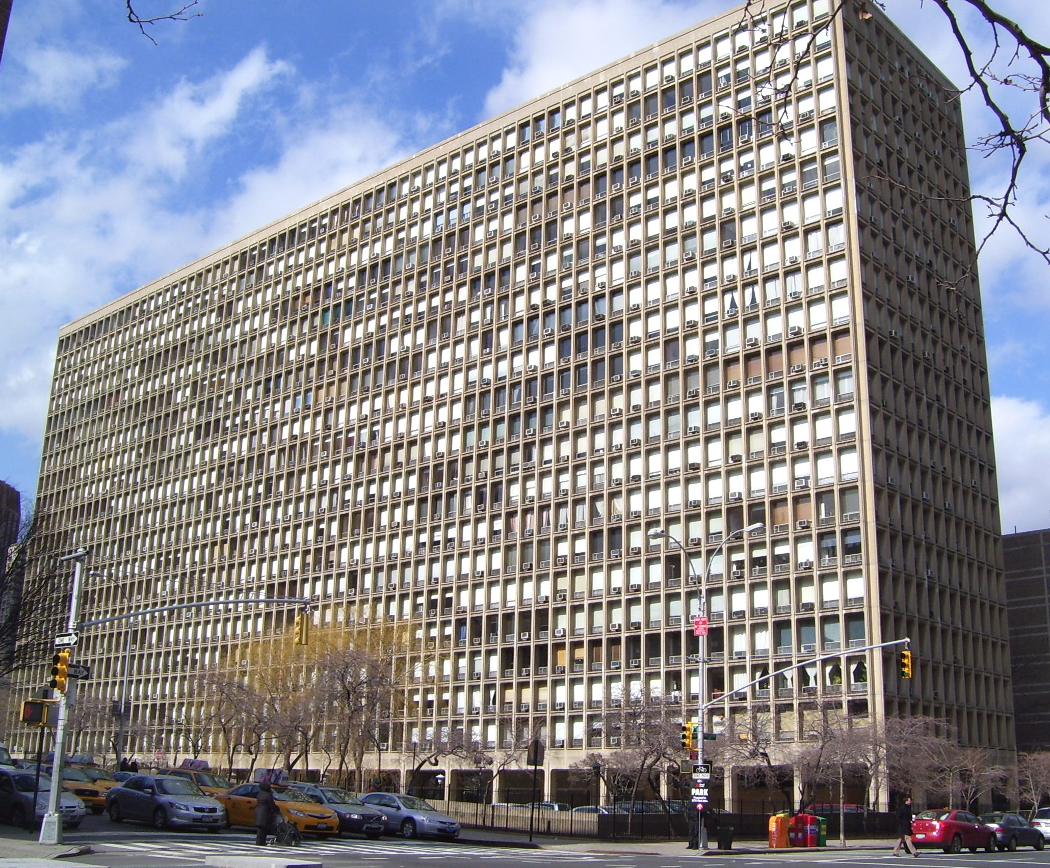 The Kips Bay Plaza apartment complex is located between East 30th and 33rd Streets and First and Second Avenues in the Kips Bay neighborhood of Manhattan, New York City. The south building, seen here from First Avenue below 30th Street, was built in 1960, and the north building in 1965. Designed by I. M. Pei and S. J. Kessler, these were New York City's first exposed concrete apartment buildings. (Source: AIA Guide to NYC (4th ed.))